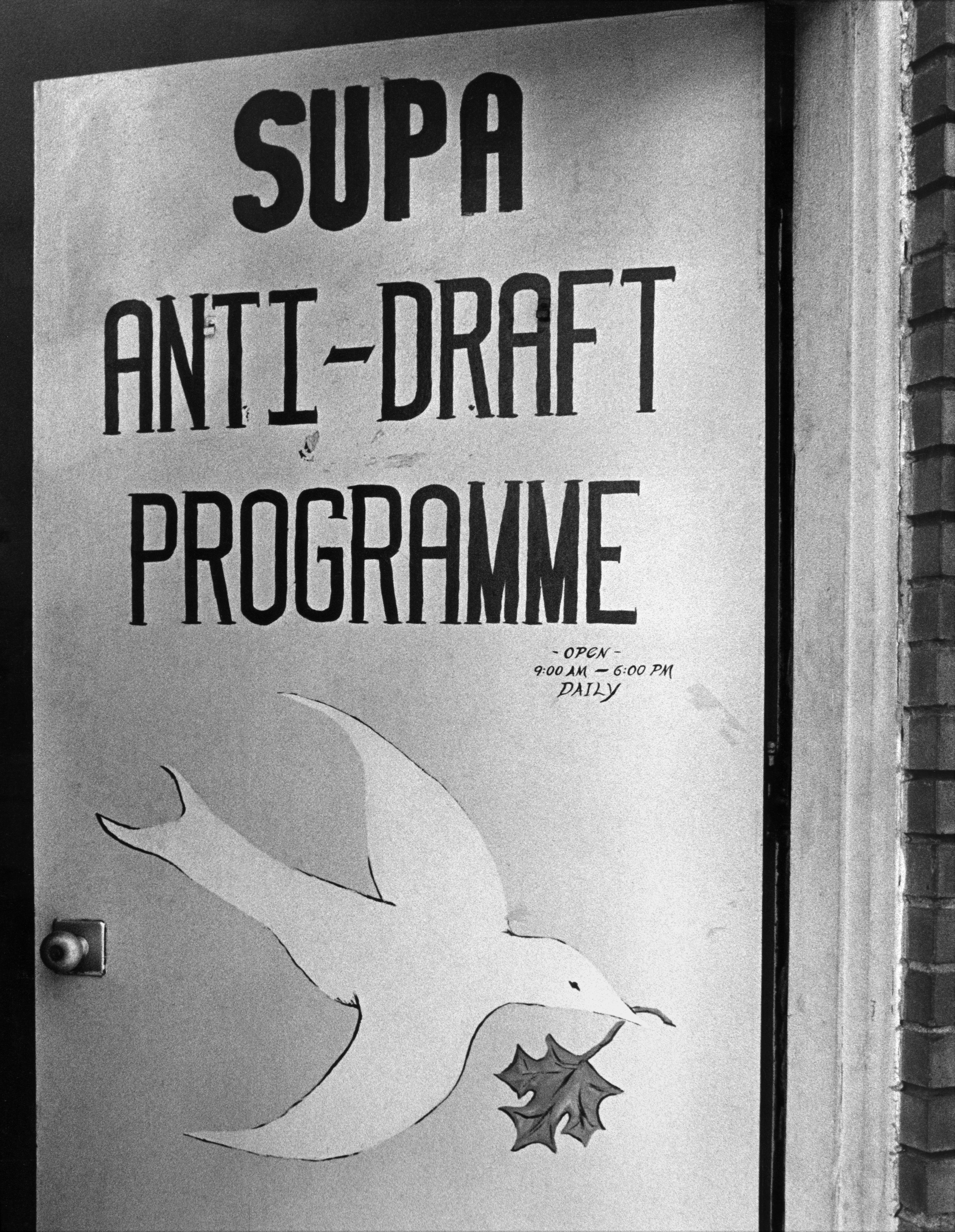 Street door to the office of the Student Union for Peace Action's Anti-Draft Programme, on busy Spadina Avenue in Toronto, August 1967. The Programme was Canada's largest organization providing pre-emigration counseling and post-emigration assistance to American Vietnam War resisters. In October 1967 it was re-founded as the Toronto Anti-Draft Programme and remained active as such for the remainder of the war. Mark Satin, who was director of the Programme when this photograph was taken, would soon finish writing the Manual for Draft-Age Immigrants to Canada (House of Anansi Press, 1968), which sold nearly 100,000 copies during the war (according to a James Adams article in the Toronto Star, 20 October 2007).